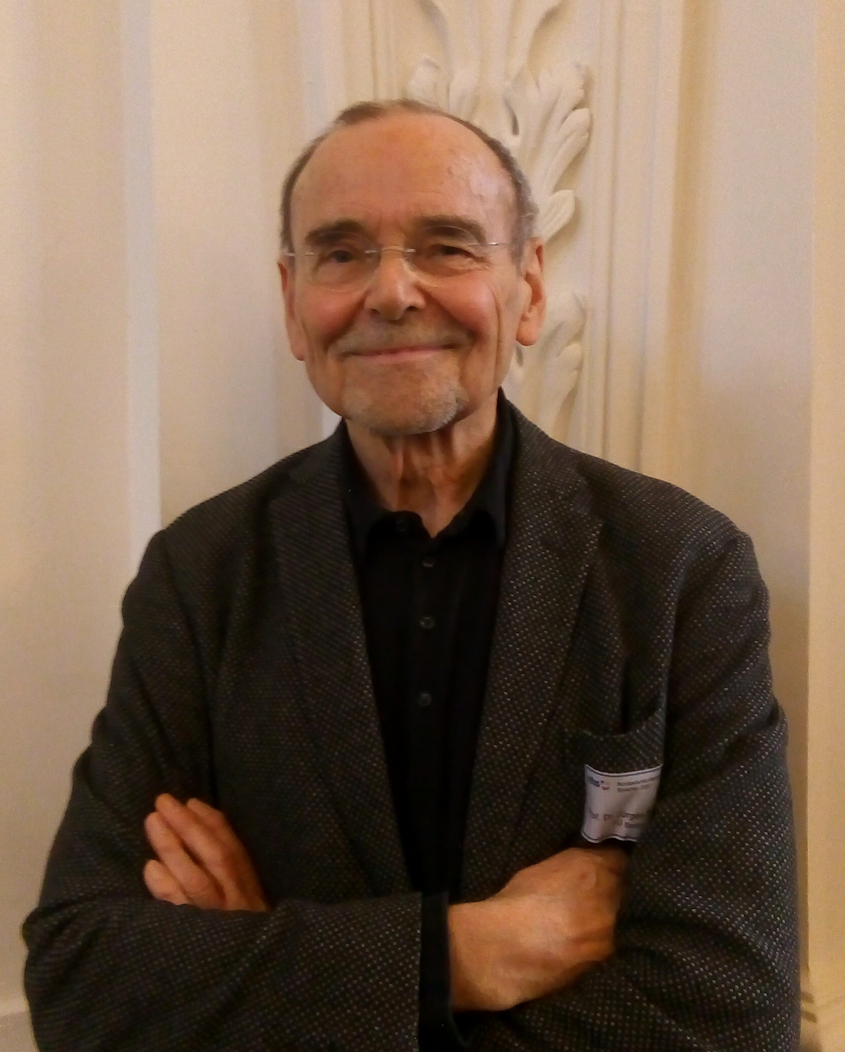 Jürgen Trabant at a conference, Aachen, Germany check usage